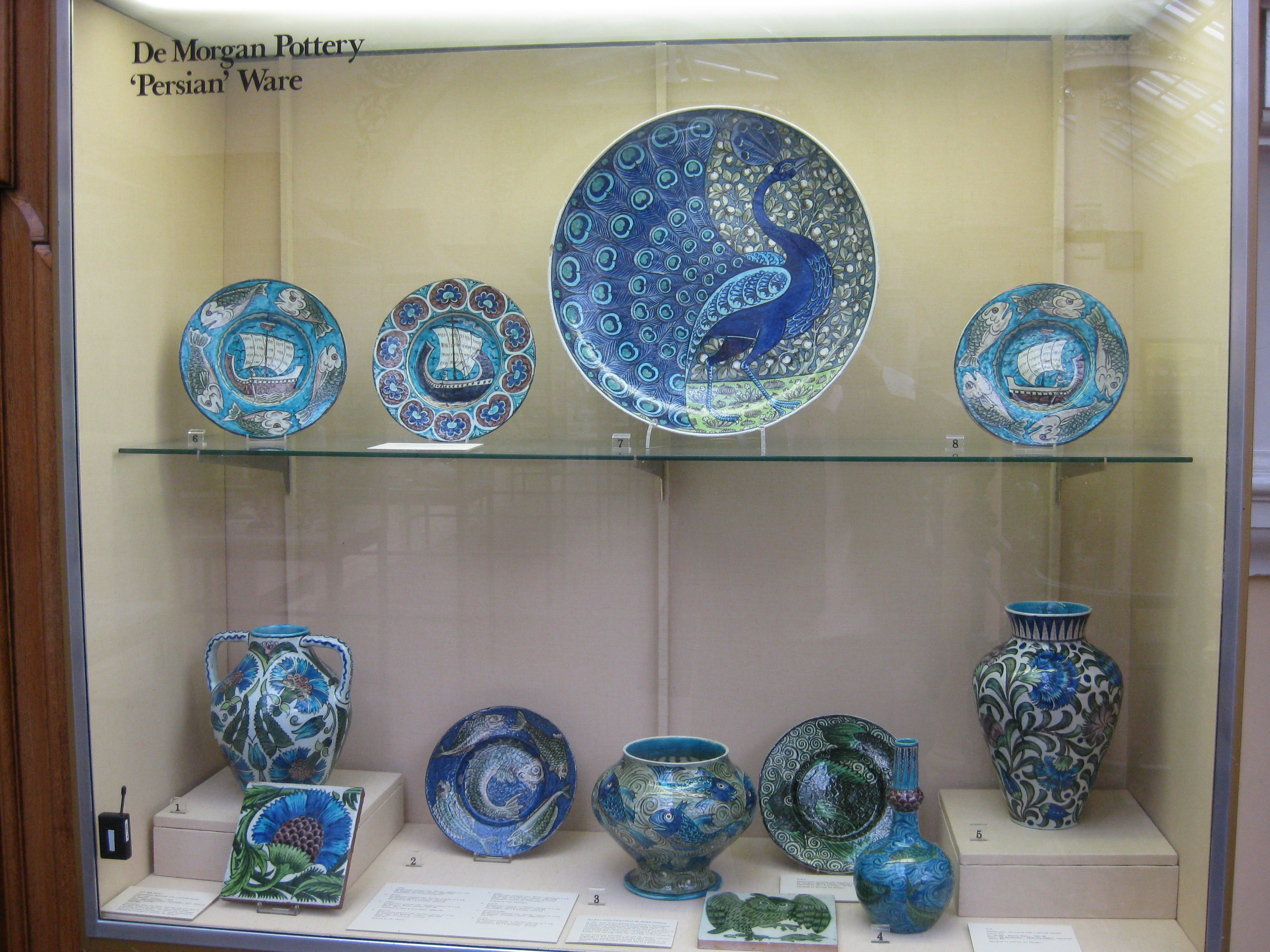 Collection of "Persian ware" by William de Morgan, in the Birmingham Museum and Art Gallery.